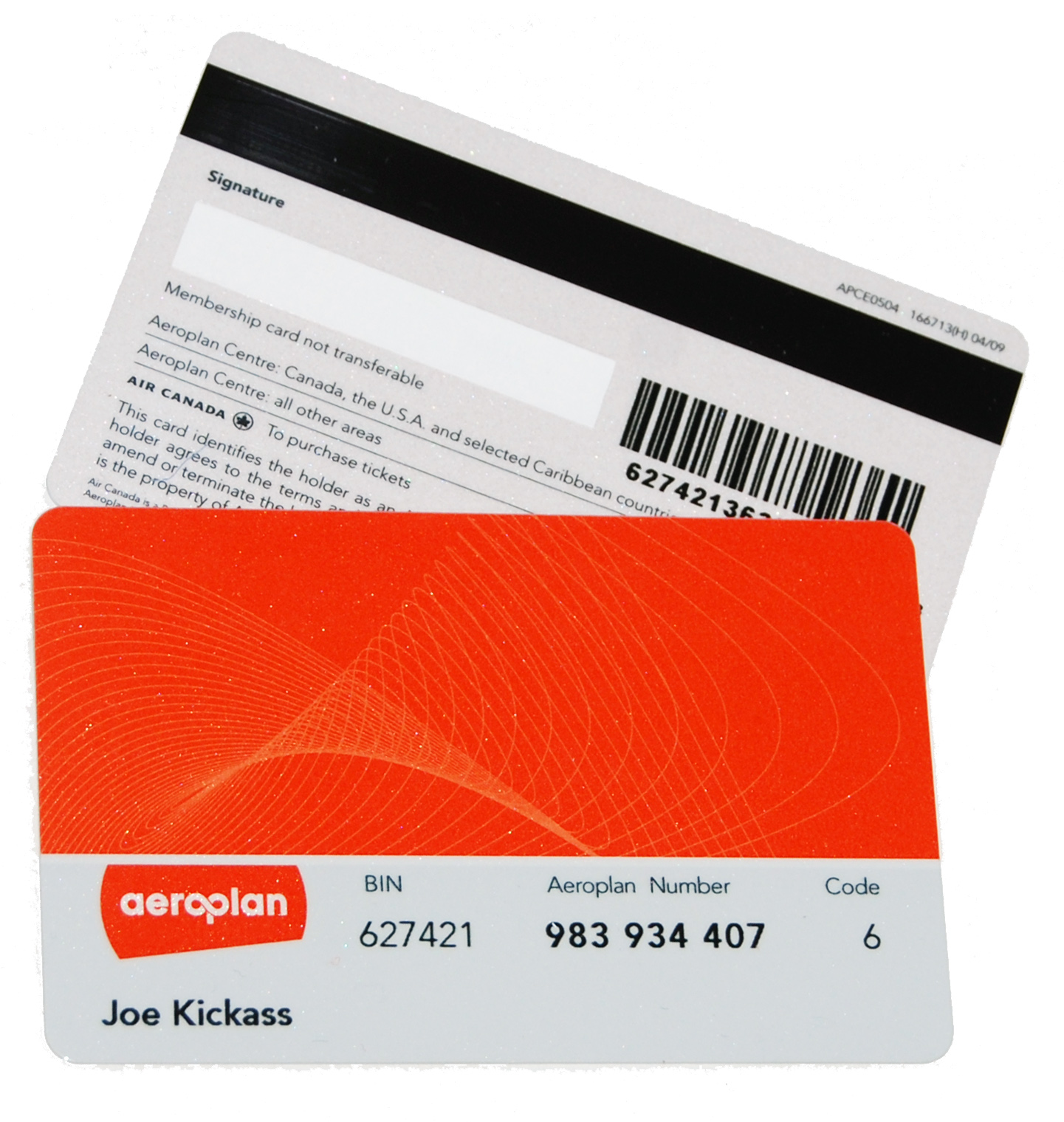 I took this photo of 2 Aeroplan cards. Joe Kickass is not a real person. (number is not valid). I release this image to the public domain.